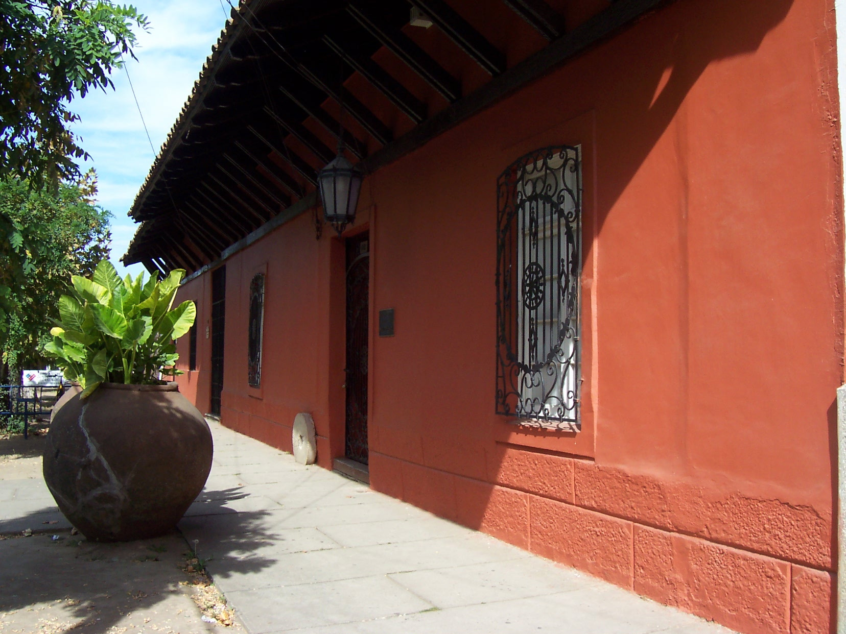 Photograph of the Museum of Art and Crafts, Linares, Chile (Autumn 2007)